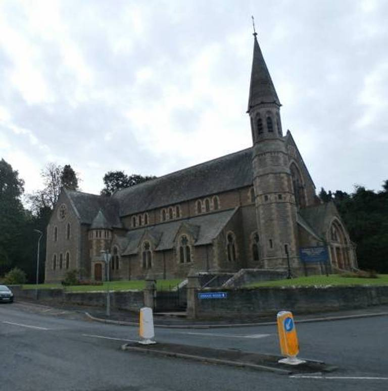 Jedburgh Old and Trinity Parish Church